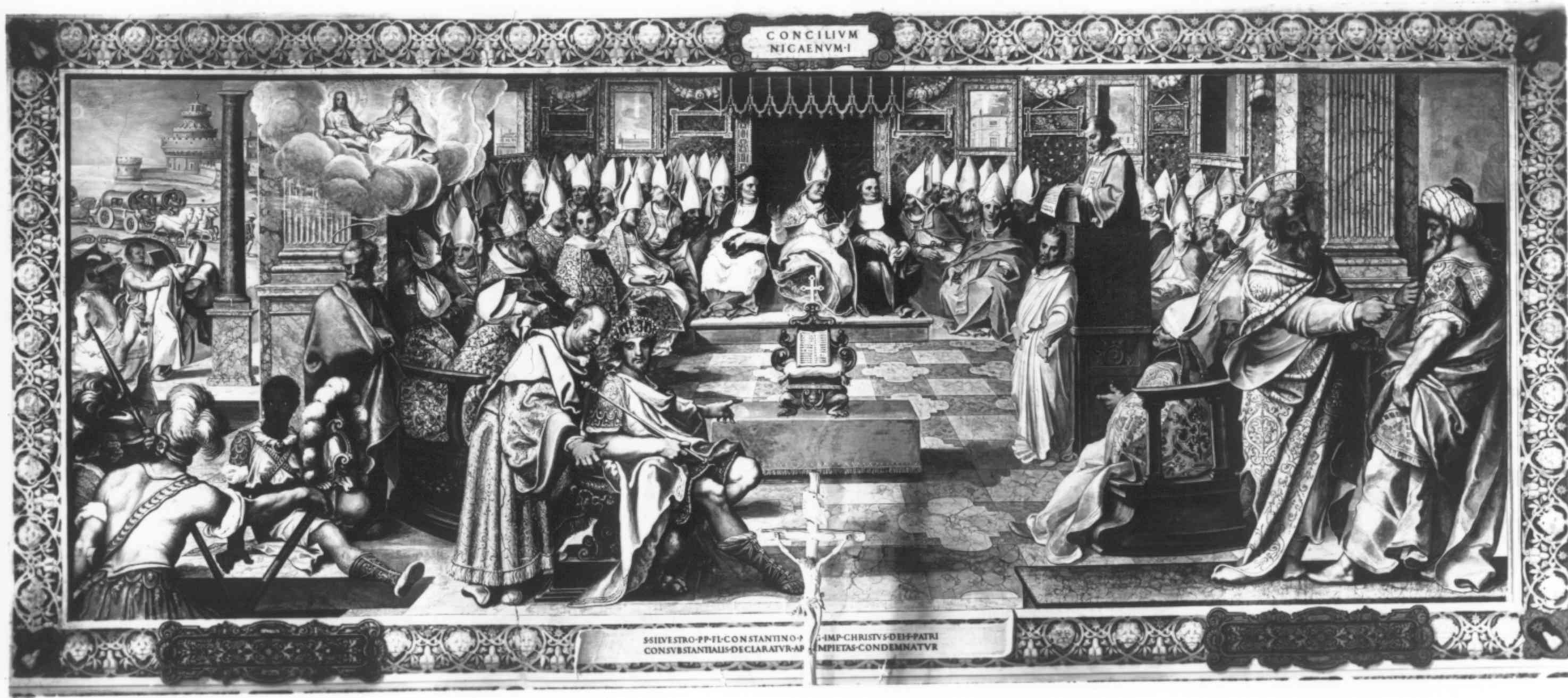 One of the frescoes of the Ecumenical Councils in the Sistine Salon at Vatican.